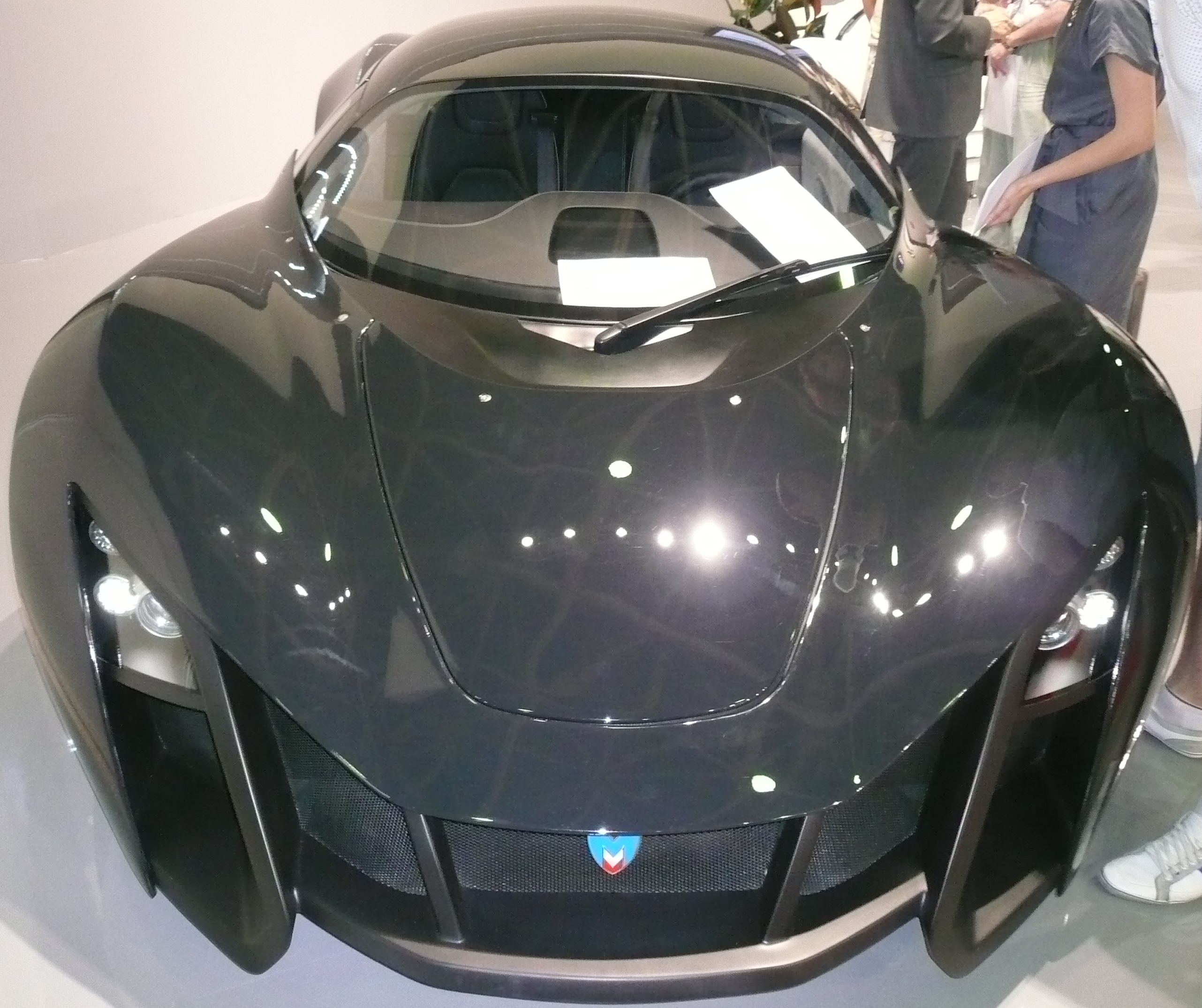 Marussia B2.